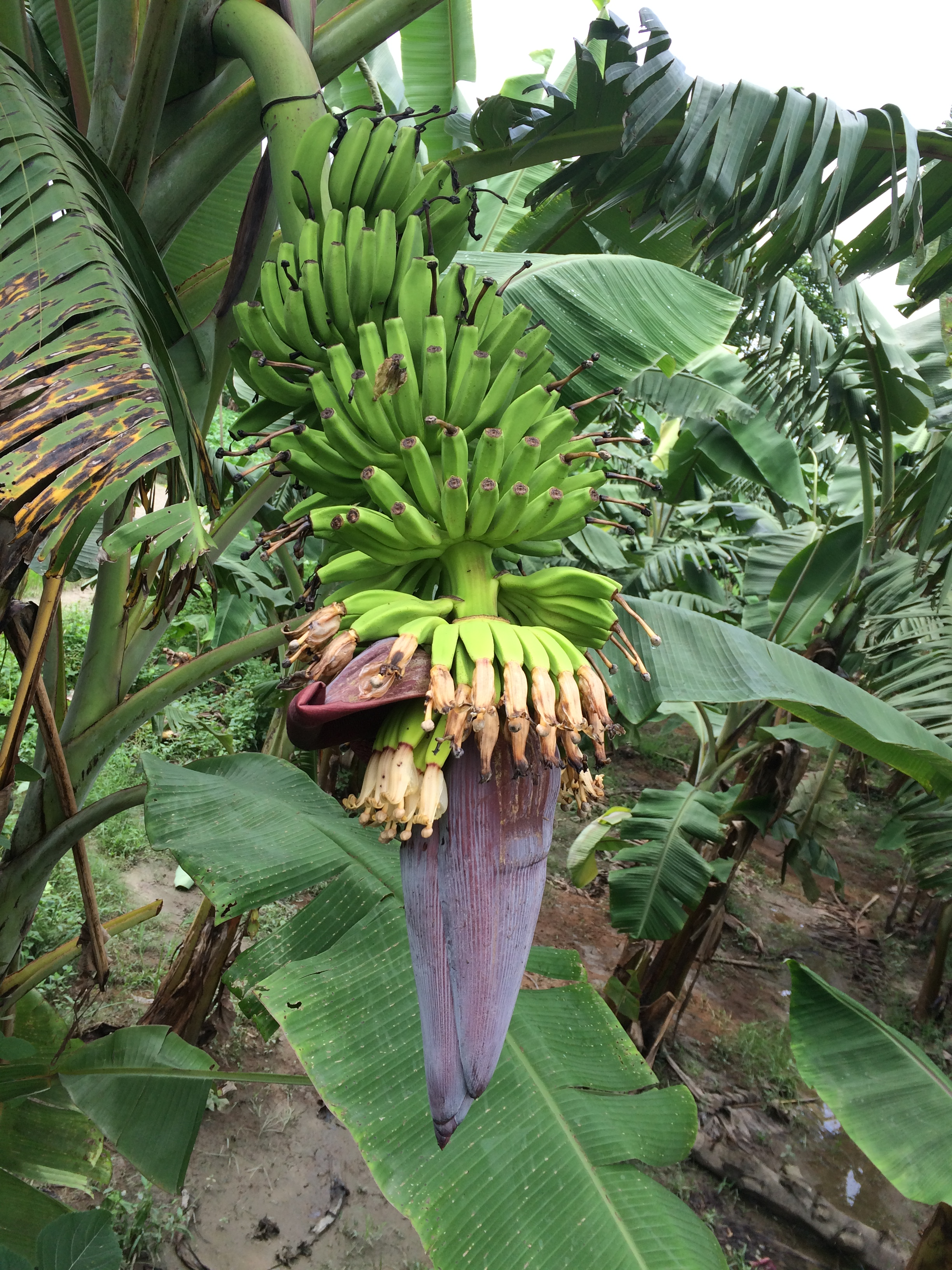 Banana inflorescence, partially opened